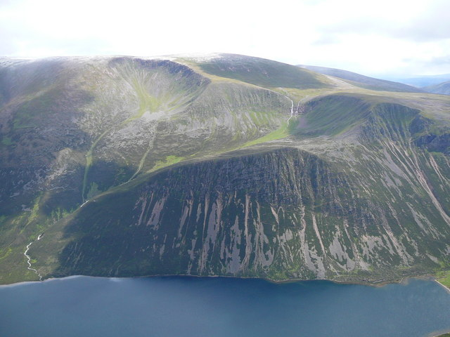 Coire nan Clach from Sgor Gaoith